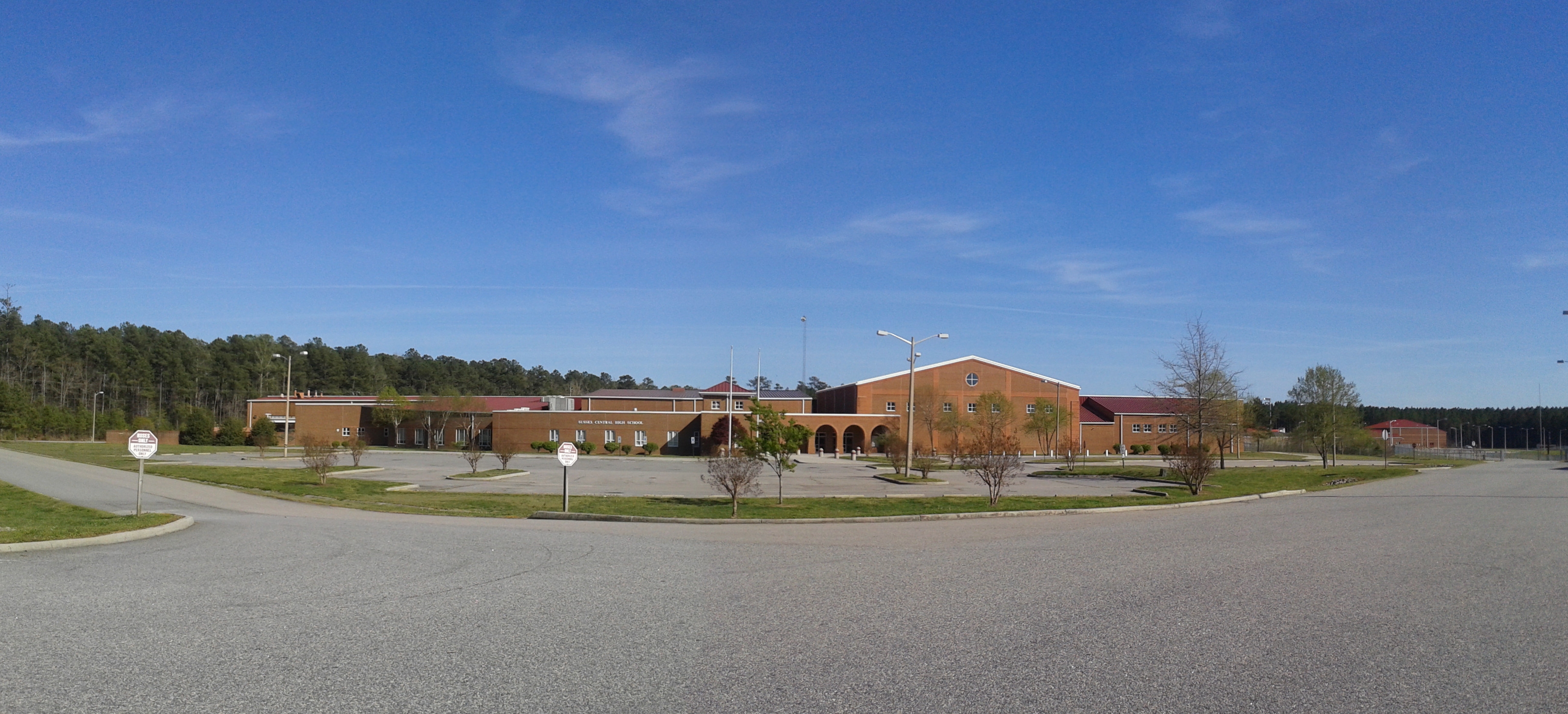 Surry Central High School, Virginia